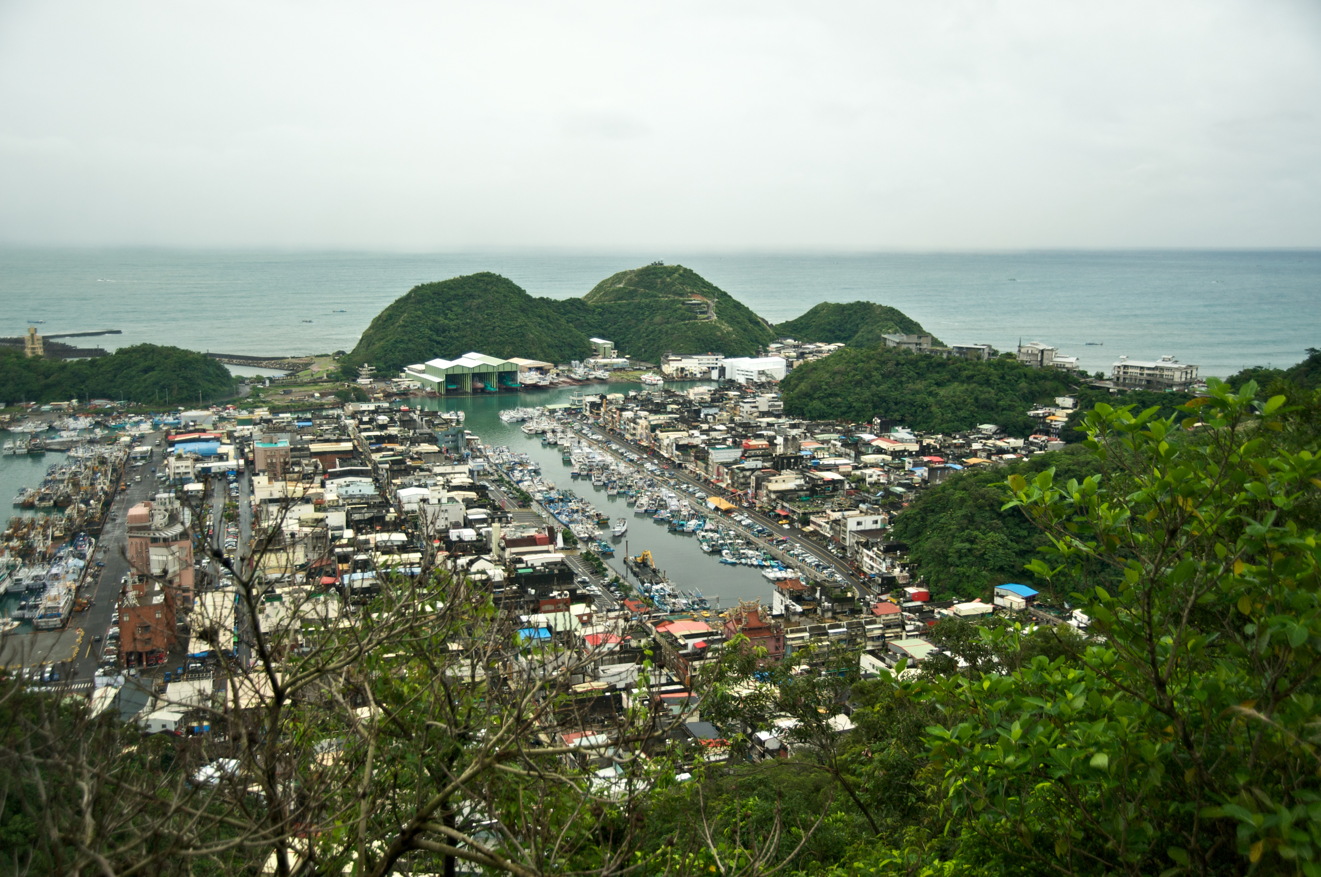 Nanfang'ao Fishing Port as seen from the SuHua Highway, a scenic drive on the east coast of Taiwan